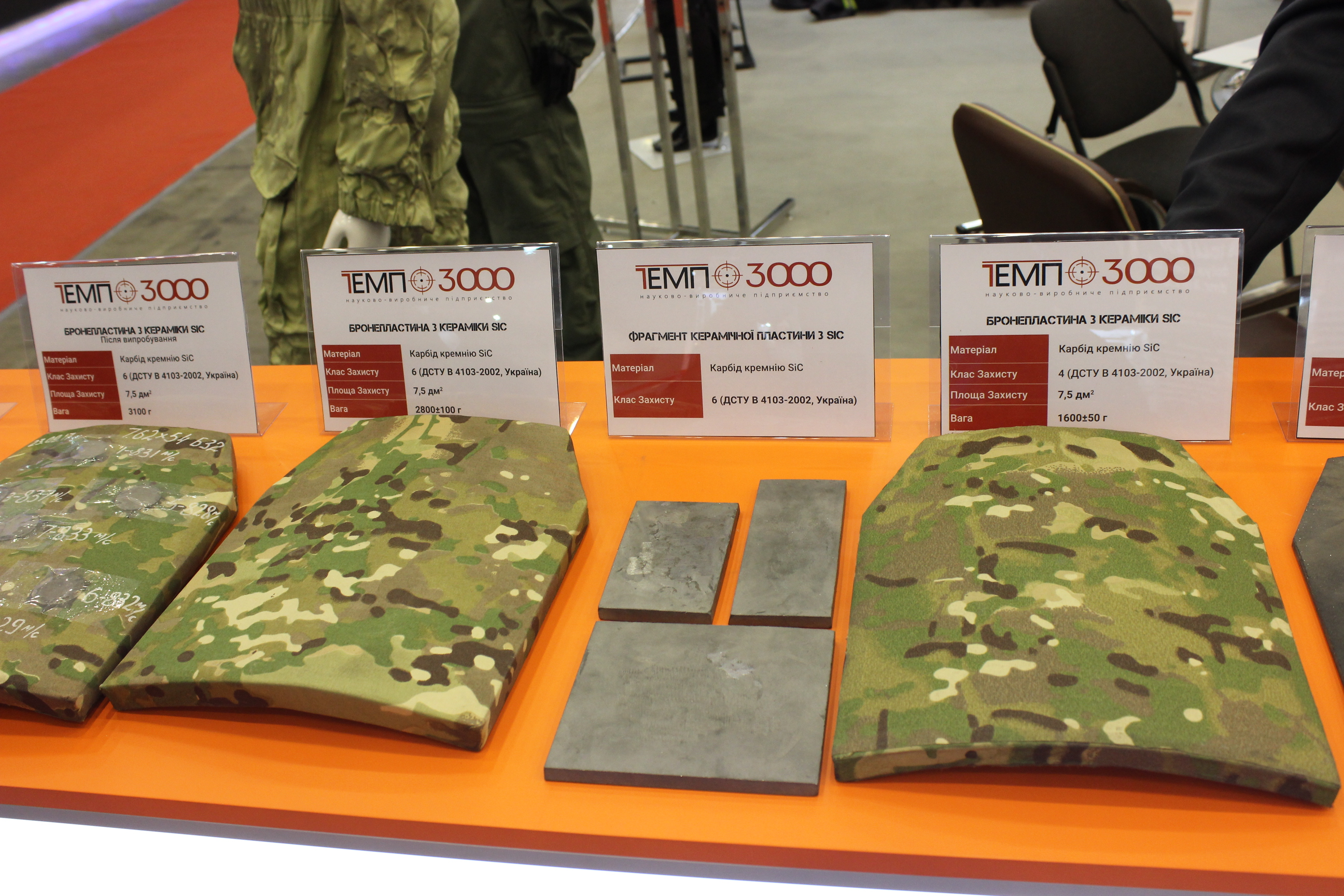 Body armor plates made from SiC ceramic compound (silicon carbide, carborund). Manufactured by Temp-3000 company in Ukraine.